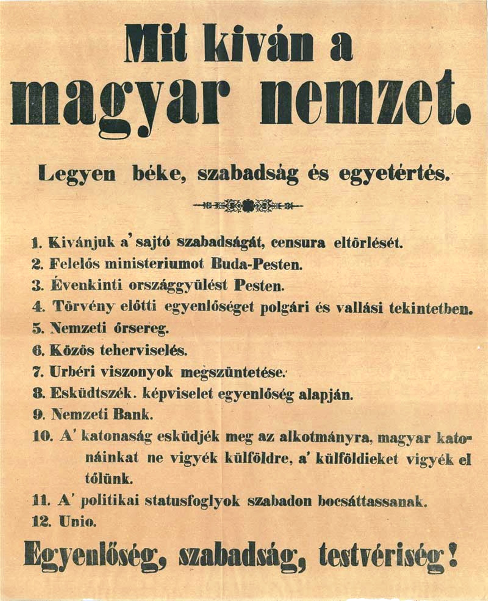 "12 points of the Hungarian Revolutionaries of 1848: What the Hungarian people want"